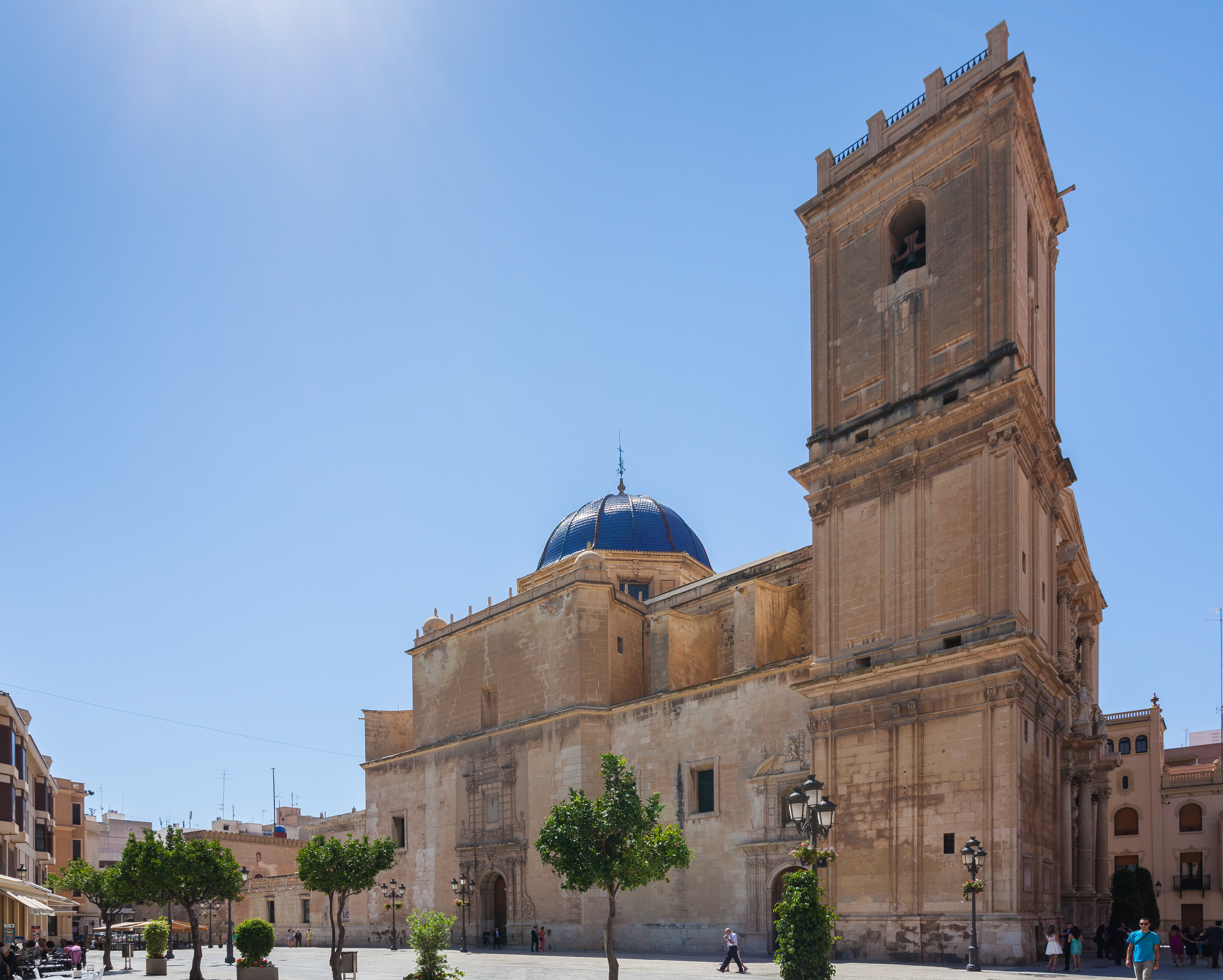 St Mary Basilica, Elche, Spain